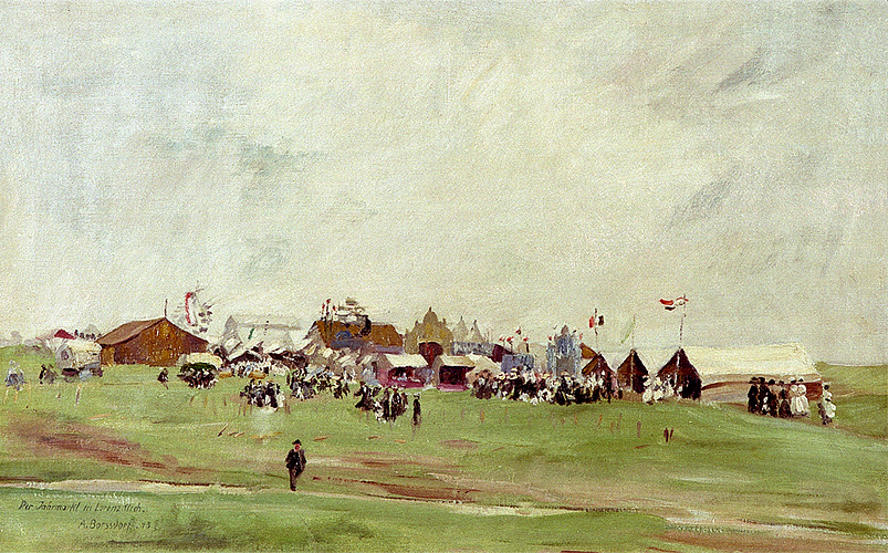 Alfred Borsdorf (1881-1950) painted "Der Jahrmarkt in Lorenzkirch" 1913 in Lorenzkirch near Riesa in Saxony, Germany.